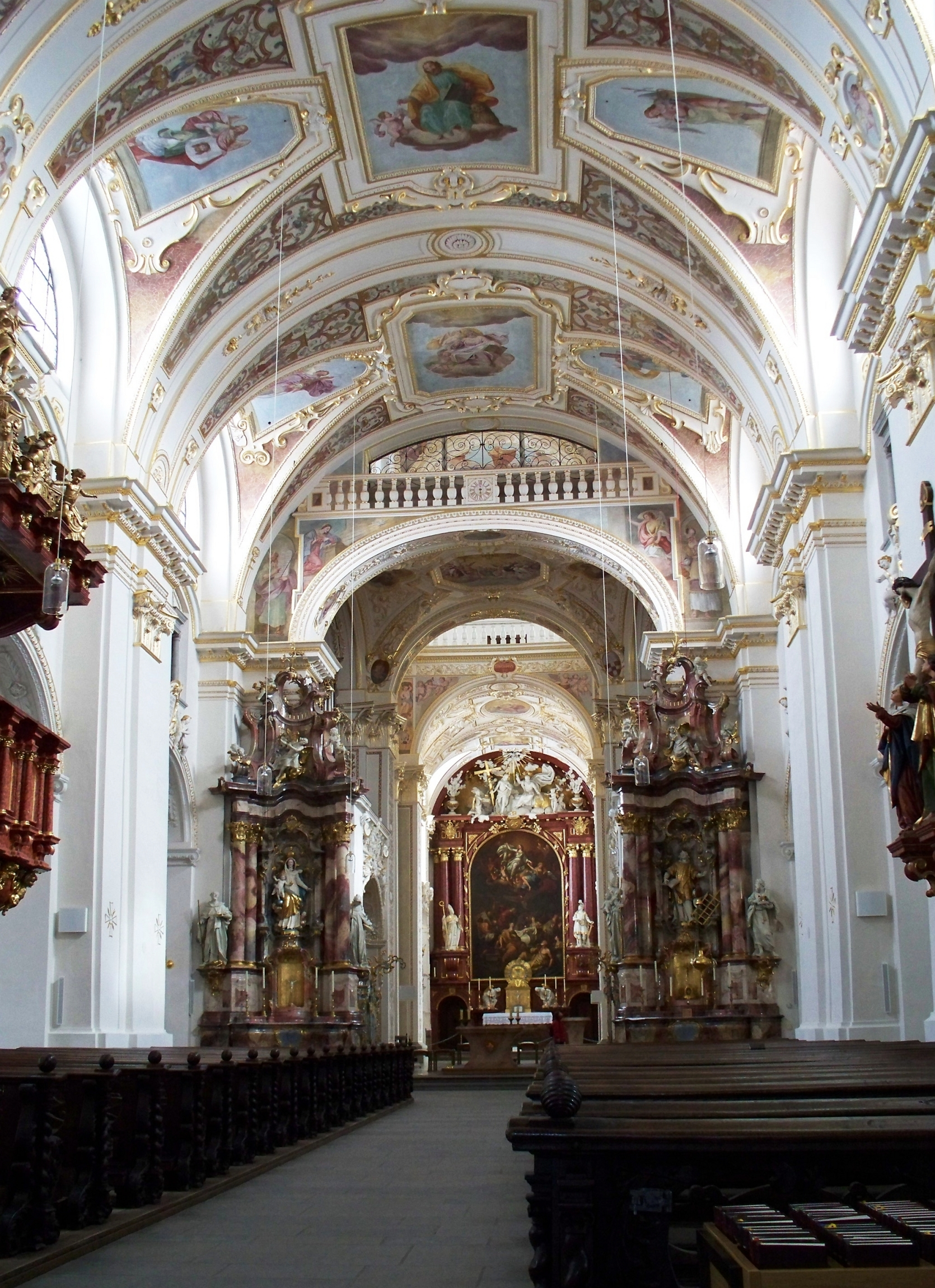 Inside the St. Lorenz church in Kempten